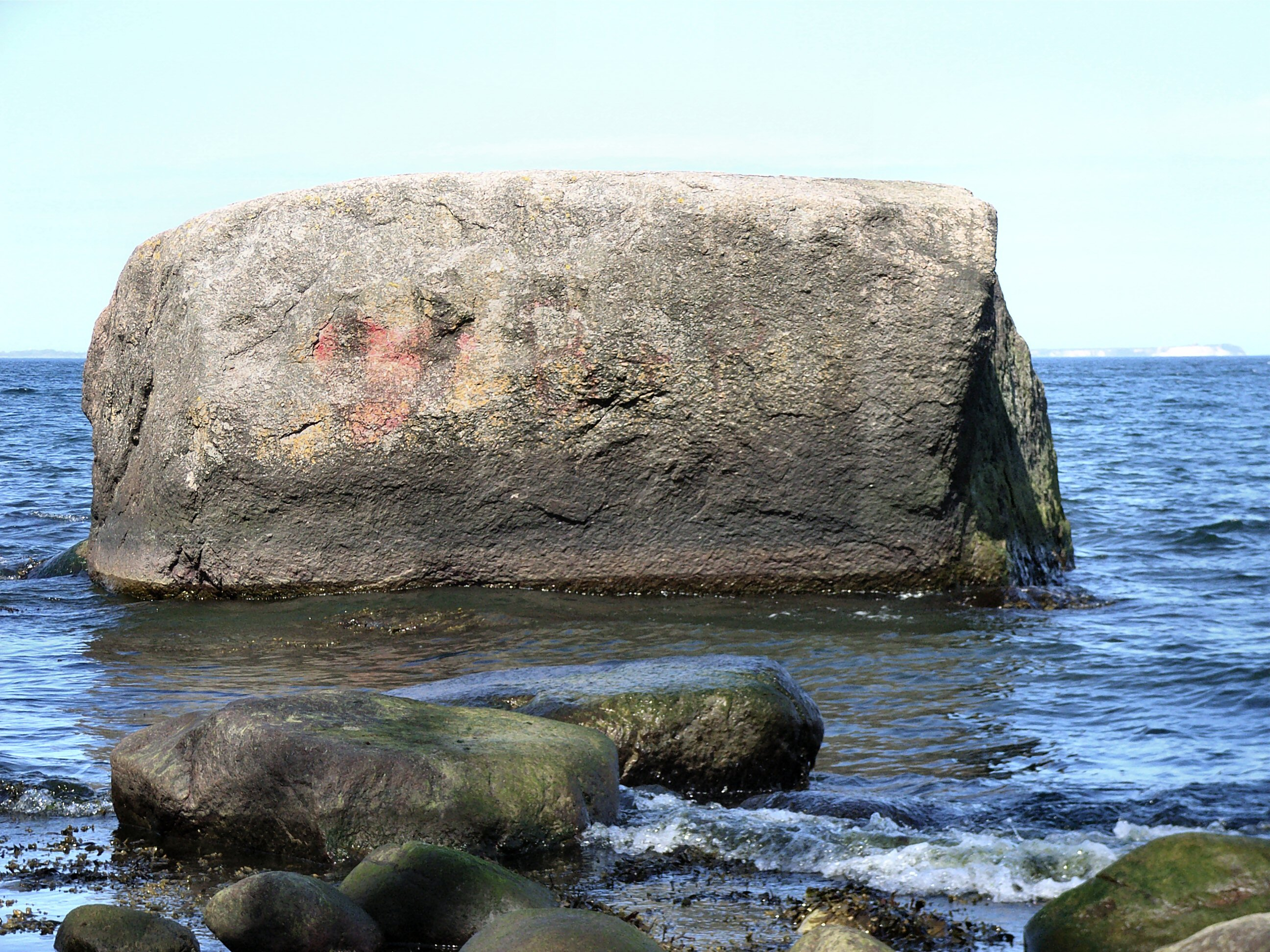 Glacial erratic near Blandow on island Rügen